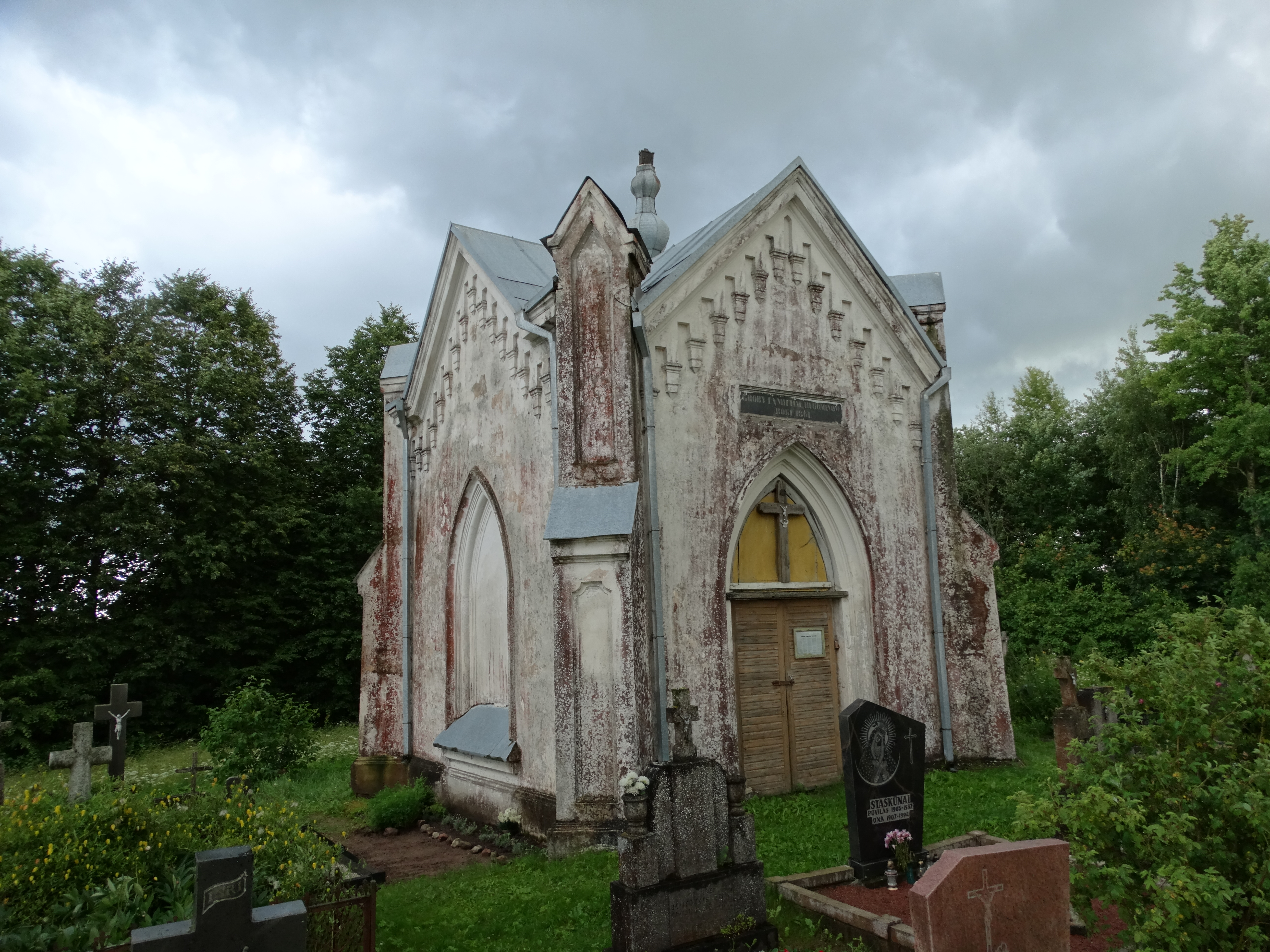 Tulpiakiemis chapel, Ukmergė district, Lithuania